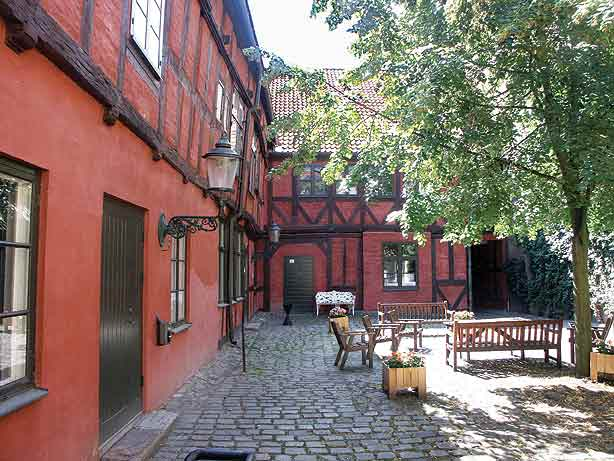 The old buildings in the block of "St Gertrud" in Malmo, Sweden.